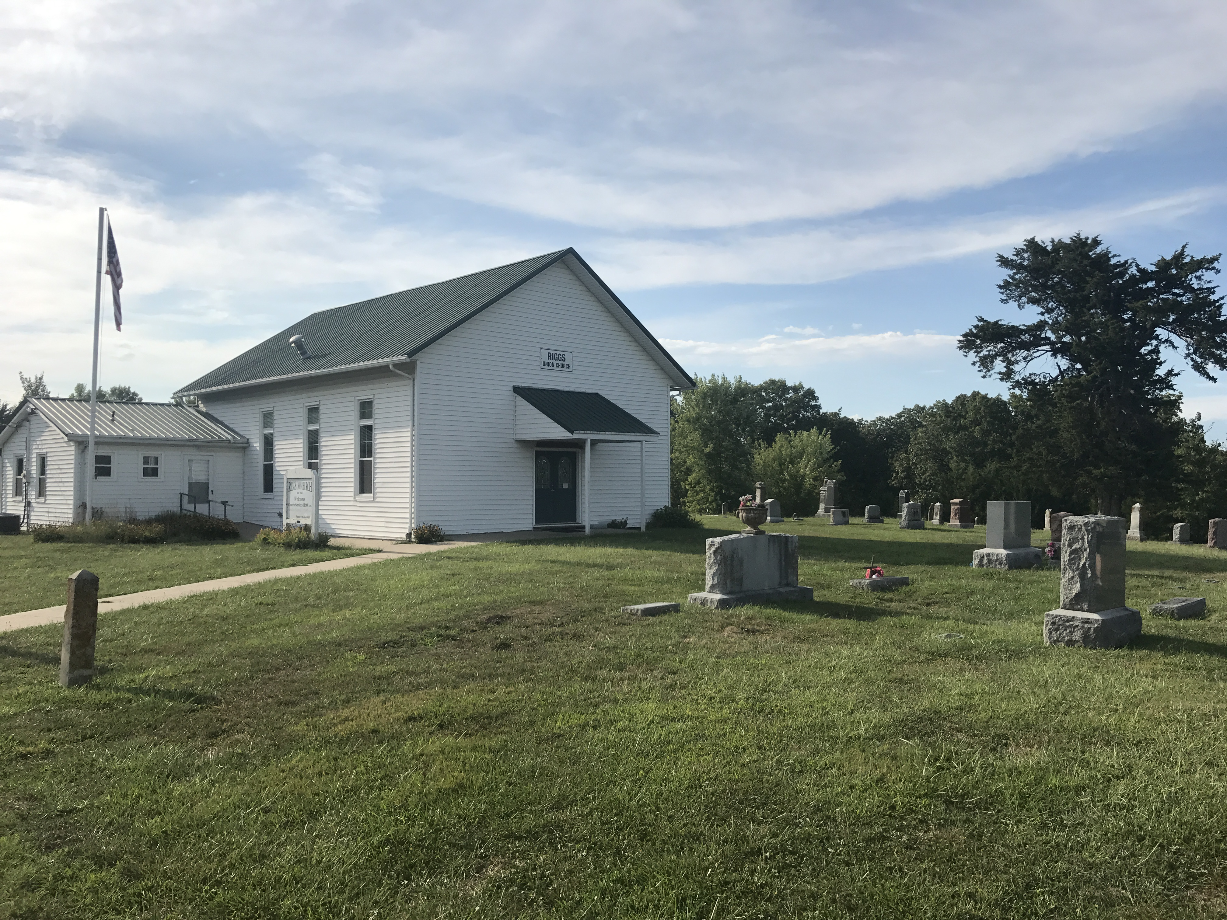 Riggs Union Church and cemetery in Riggs, Missouri. Looking Northwest from Williams road.